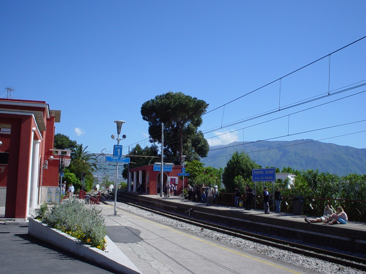 Taken May 5th, 2004 by myself.